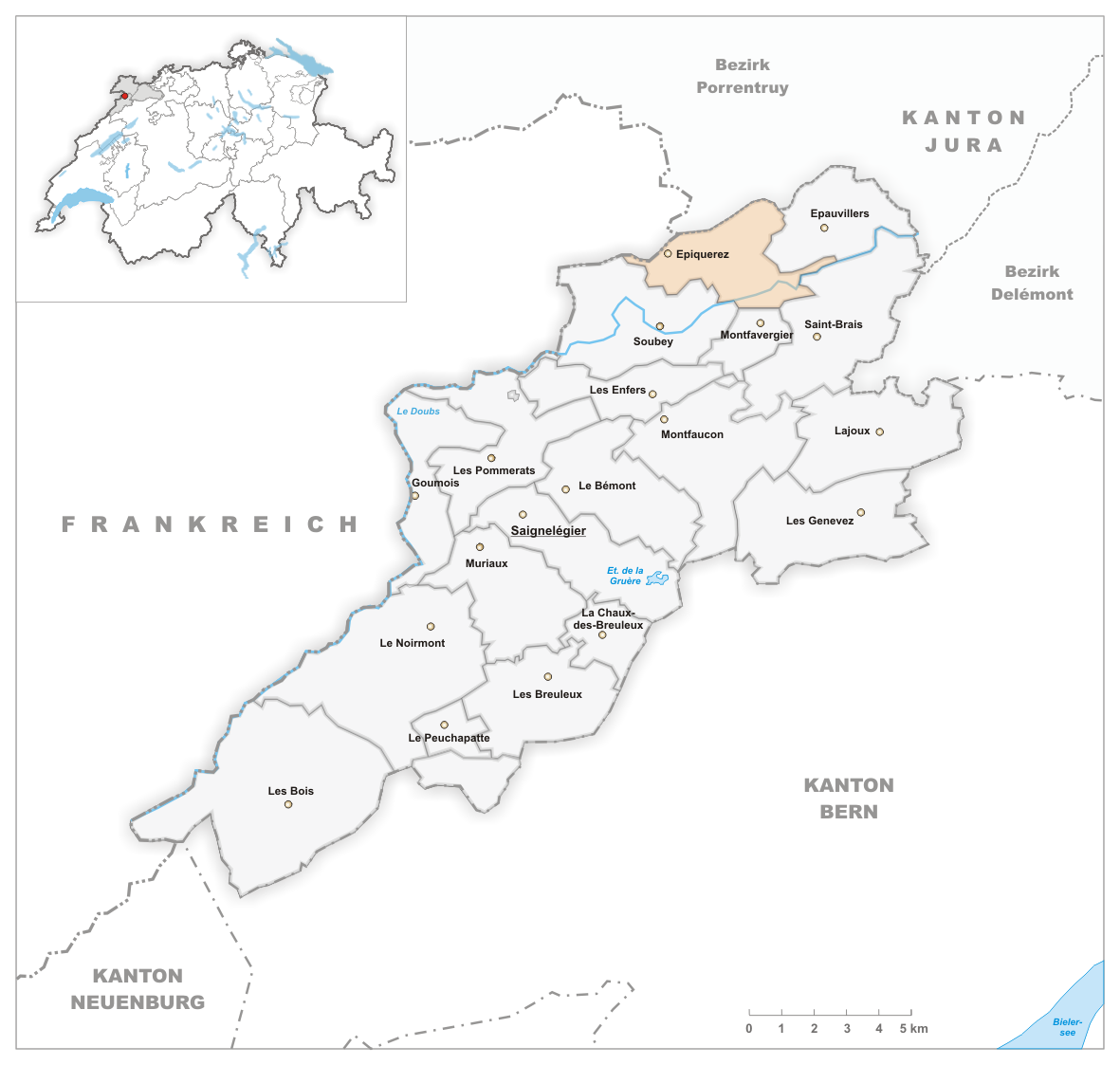 Municipality Epiquerez